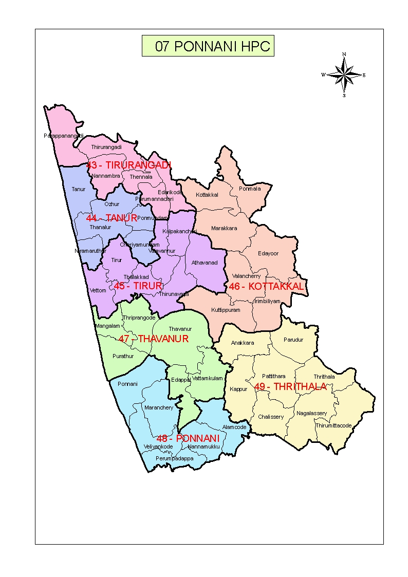 Map of Ponnani Lok Sabha Constituency